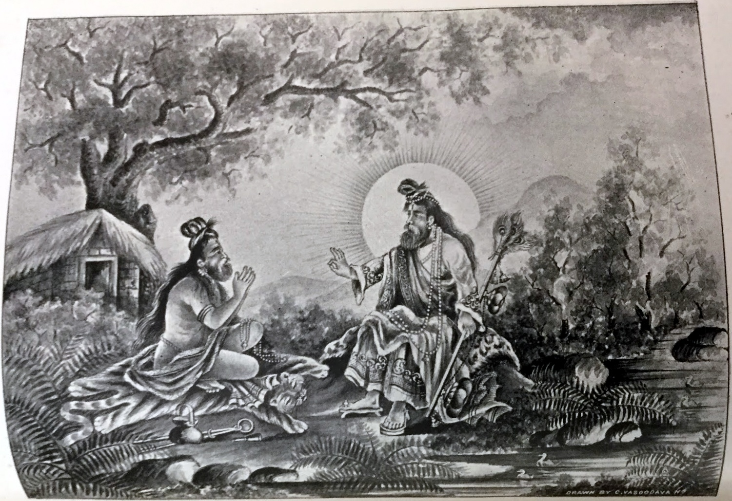 FOLLOWING ARE THE PICTURES FROM A 100 YEAR OLD BOOK OF BHAGAVATA PURANA. THESE PICTURES COVER FIRST TWO BOOKS; BHAGAVATA HAS 12 BOOKS